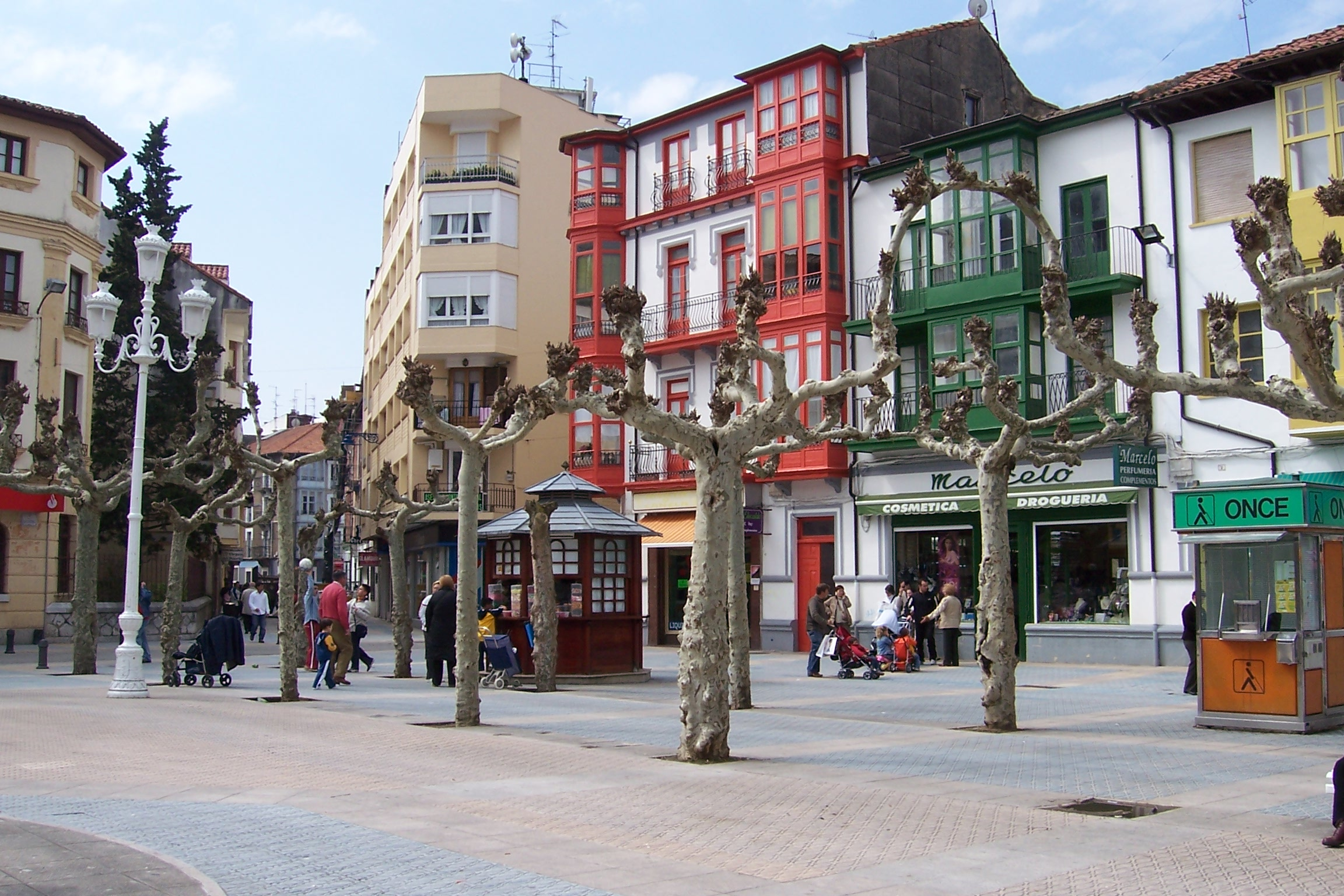 Santoña Cantabria (Spain). Plaza de San Antonio. San Felipe street is located between the east side and the west side. The Mercantil Bank, nowadays Santander Bank is at this corner.